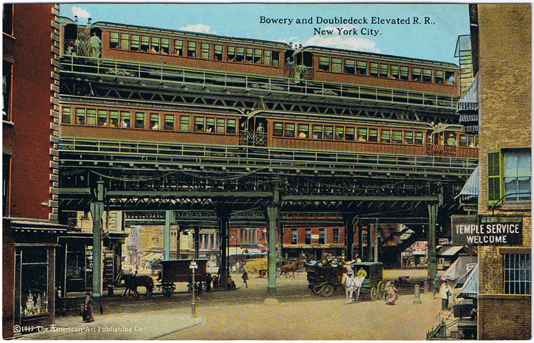 Uncirculated glossy color postcard of the Bowery and double-deck elevated train, New York City. Back is divided. Published by The American Art Publishing Co., New York City. Card #R-70150. Back reads "The Bowery, one of the most noted thoroughfares in the city, runs in a northeasterly direction through the most congested district of the famous East side. It practically begins at the Brooklyn Bridge under the name of Park Row and ends at Cooper Square. Was formerly a part of the old Boston Post Road."